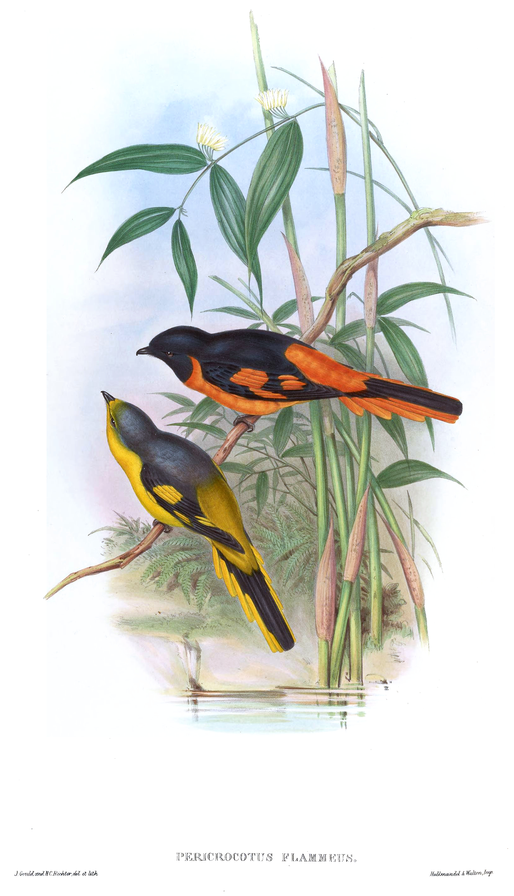 Scarlet Minivet Pericrocotus flammeus (Forster)